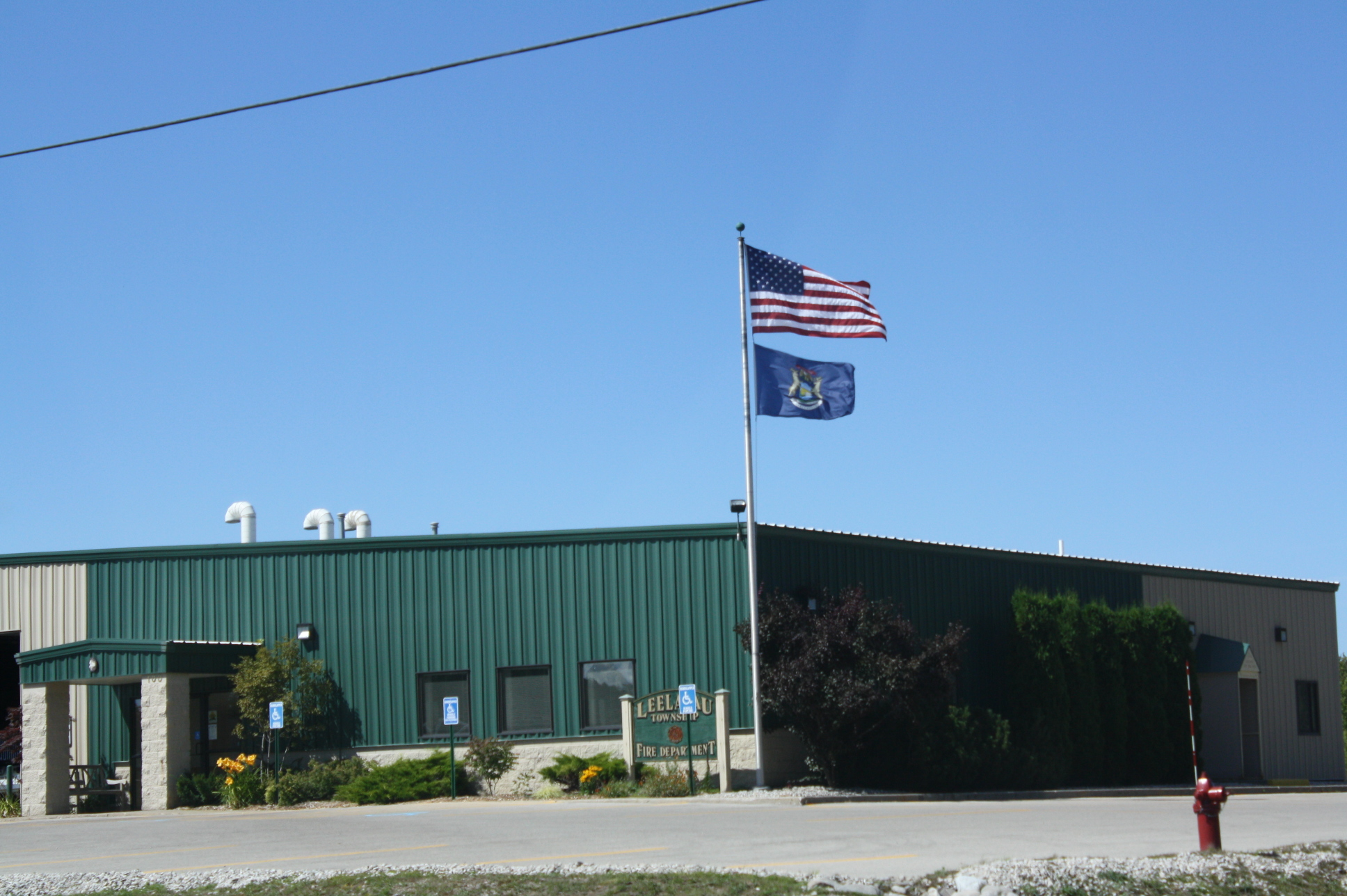 The Leelanau Township, Michigan fire department in Northport, Michigan.